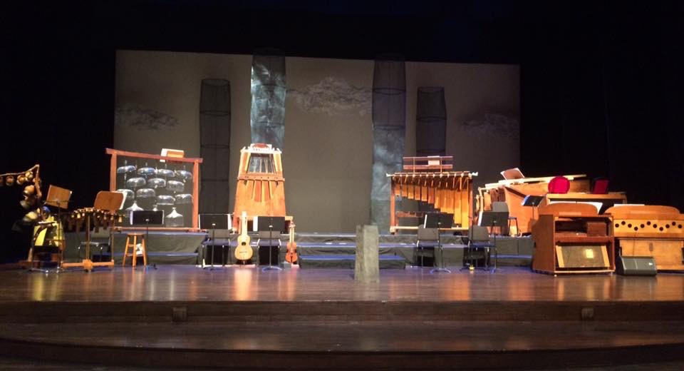 A subset of Partch's original instruments on stage: R to L: Gourd Tree, Cone Gongs, Cloud Chamber Bowls, Adapted Guitar I, Kithara II, Adapted Viola, Bass Marimba, Marimba Eroica, Castor & Pollux, Chromelodeon I & II.